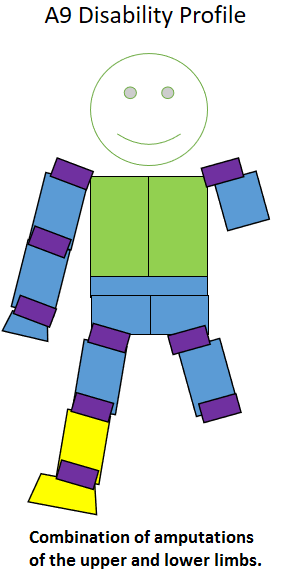 Amputee sport related classification illustration using the ISOD/IWAS classification system.